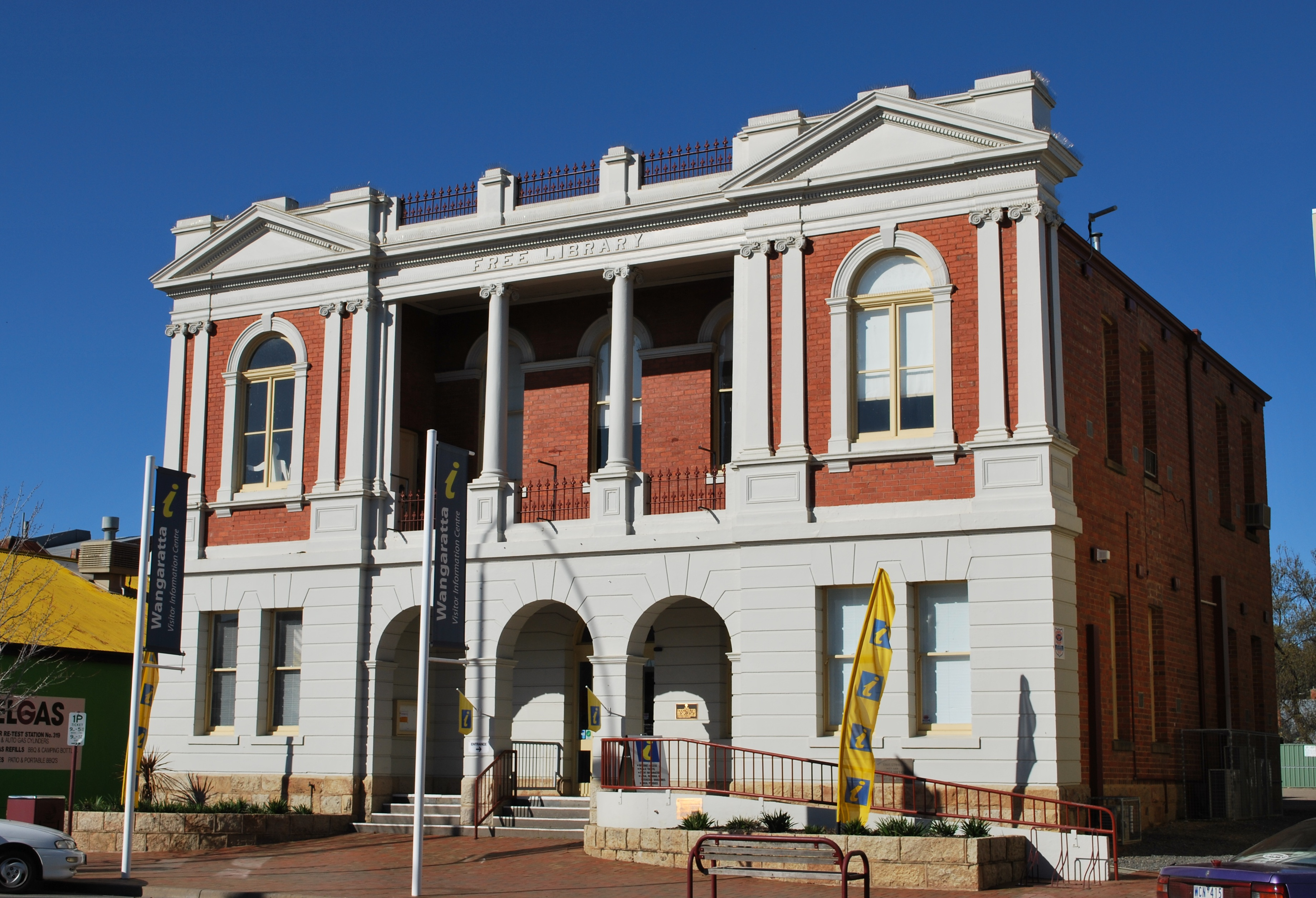 Former Free Library, now a visitor information centre, at Wangaratta, Victoria